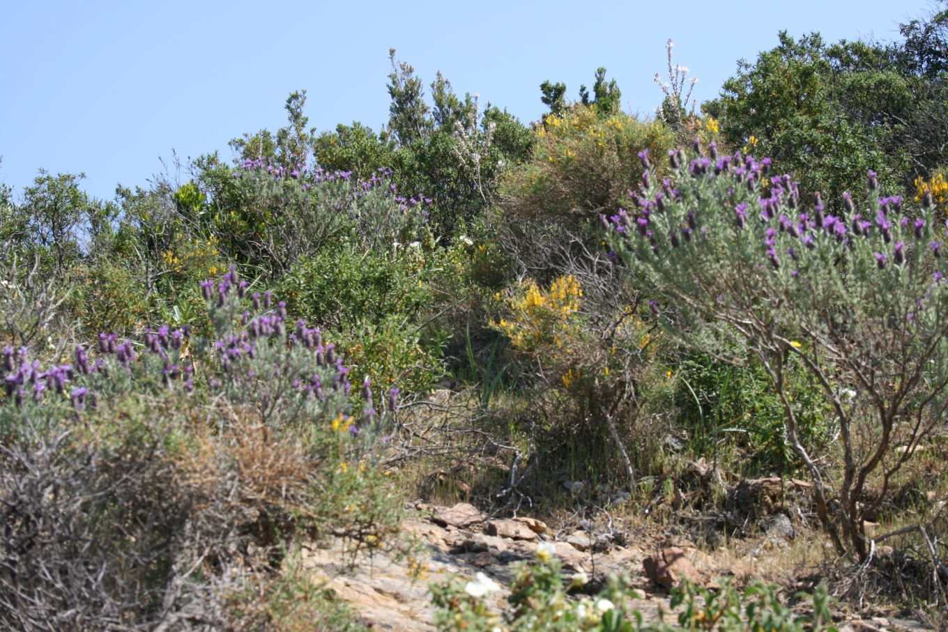 Corsican garrigue flowering at the end of April.